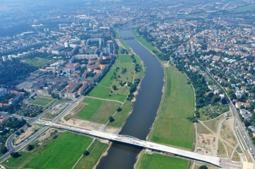 View the construction site of Waldschlösschen bridge over the Elbe in Dresden / Saxony.